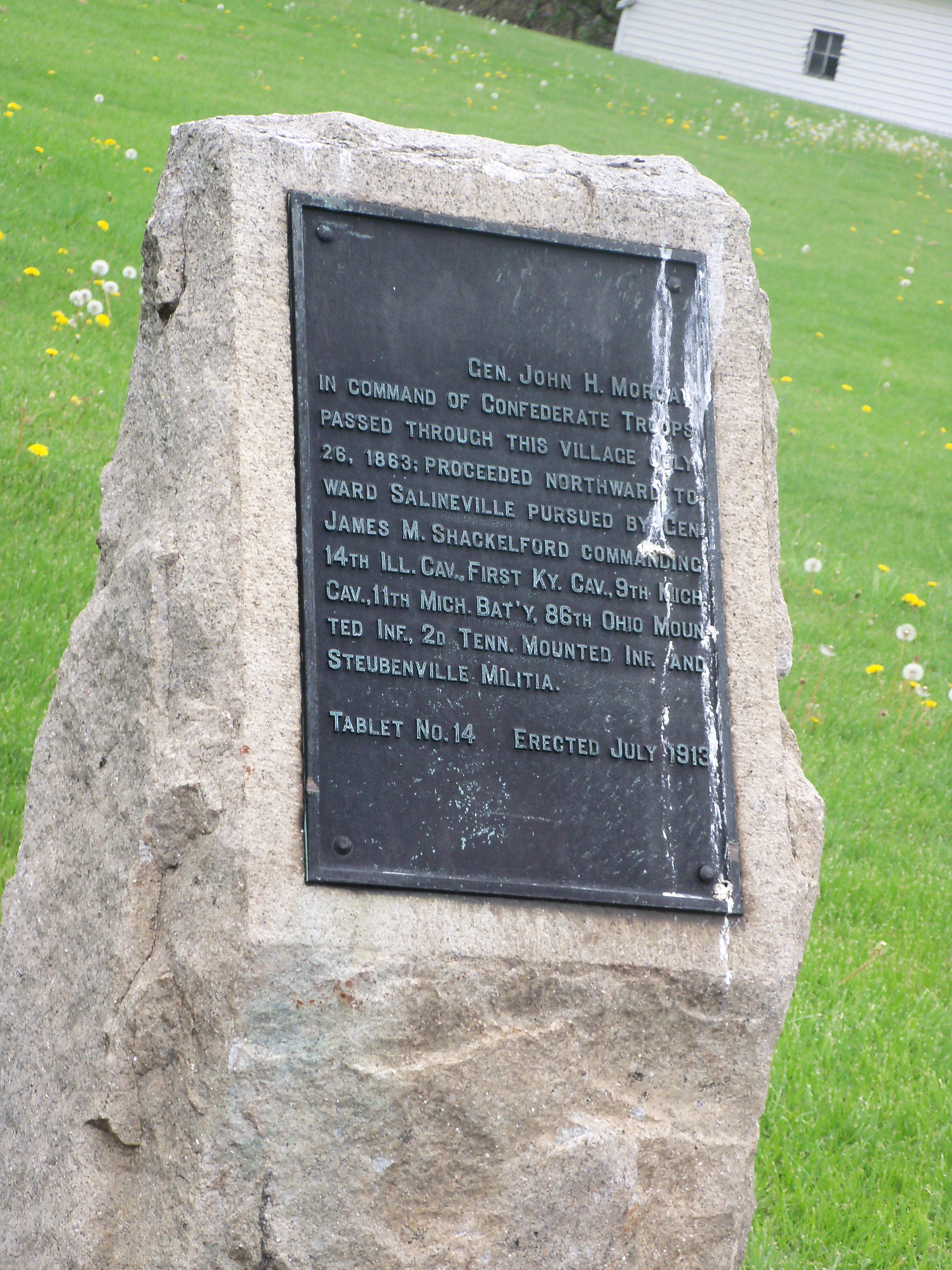 Monroeville, Jefferson County, Ohio is a crossroads in Brush Creek Township, Jefferson County, Ohio. In 1863, John Hunt Morgan of the Confederacy was pursued by Union troops through this place on his way to defeat nearby at the Battle of Salineville. In 1913, this plaque was erected to commemorate the event.